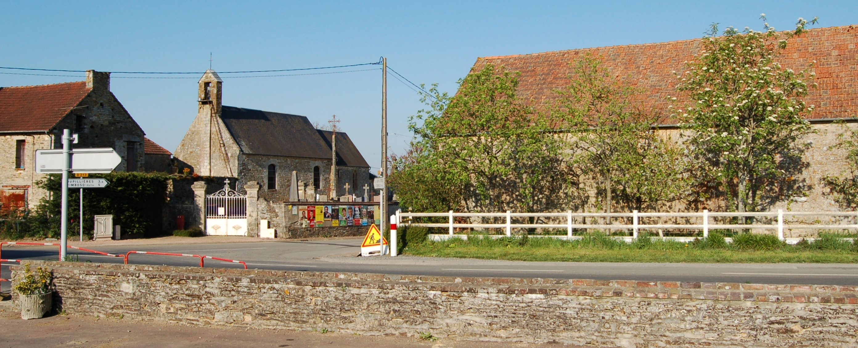 Photograph of the crossroads at La Caine in Normandy. Taken by the uploader on 21 April 2007.